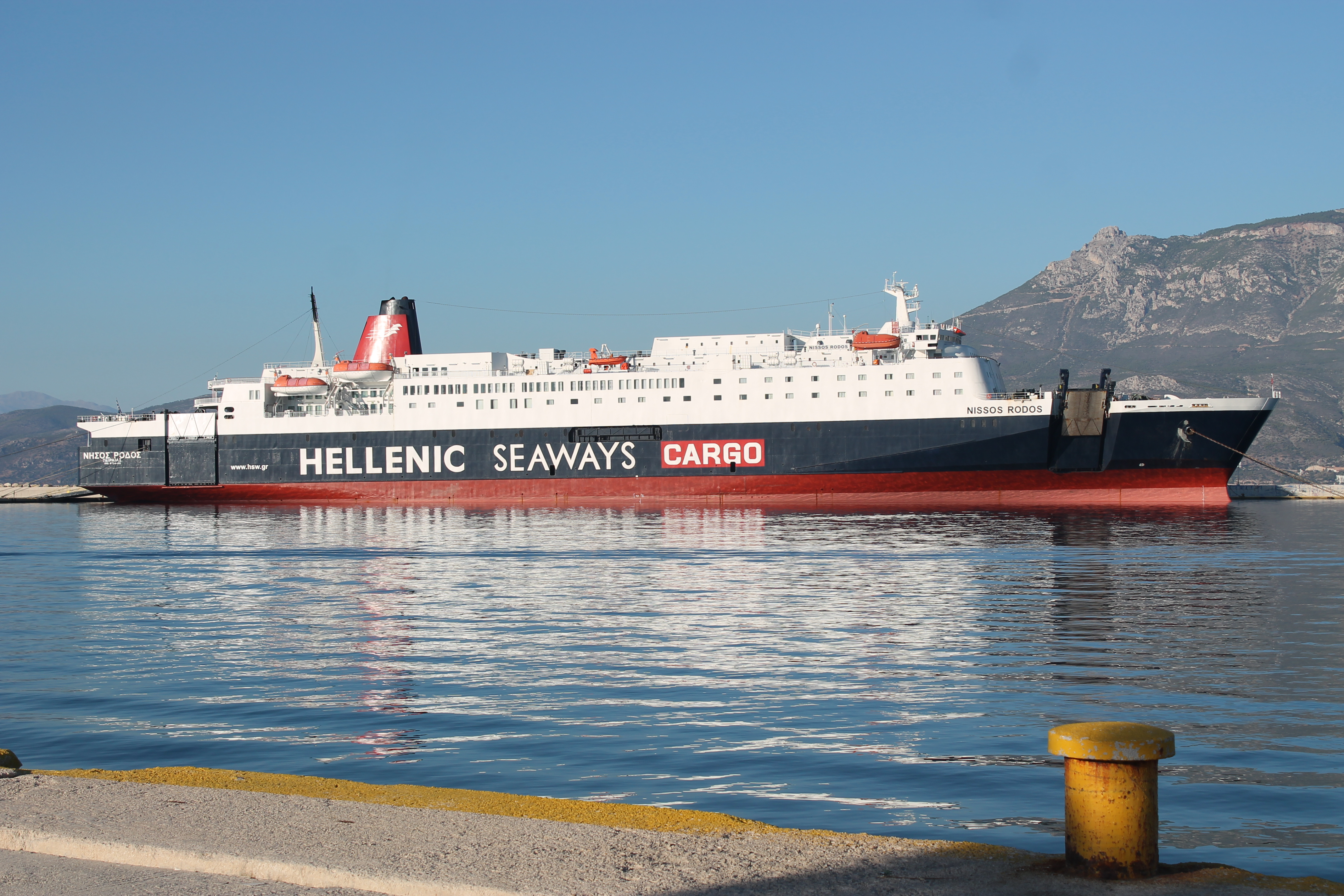 MV Nissos Rodos is a 1987 built Ro-ro/passenger ship operated by Hellenic Seaway's cargo sector. She has a tonnage of 28,733 tonnes, a length of 192.5 metres, and a width of 27 metres. She can carry 1,600 passengers and 750 cars, and can run at a speed of 23 knots. She is seen here at the port of Corinth, Greece, where she is a regular visitor, running trips between here and Venice.